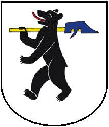 Coat of arms of Speicher, Canton of Appenzell Ausserrhoden, Switzerland